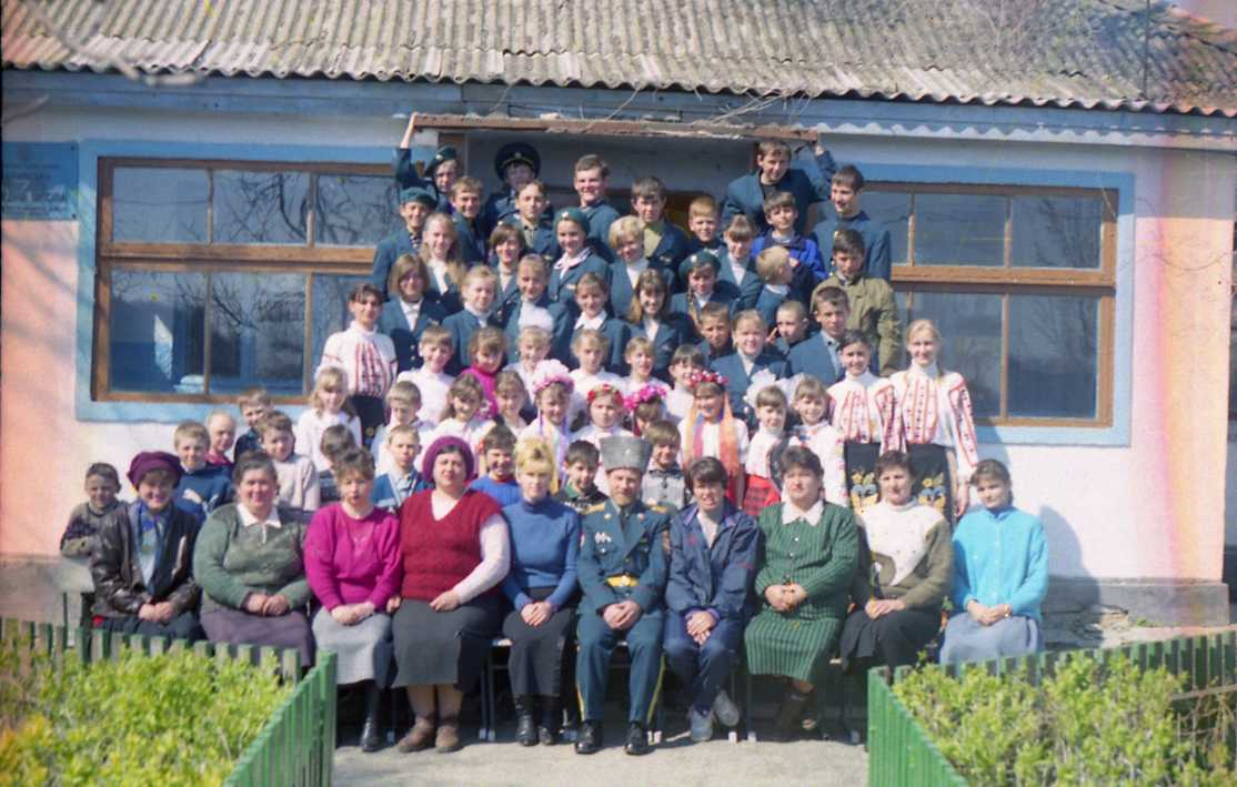 Колектив Адамівської школи козацько-лицарського виховання. 1999 рік.